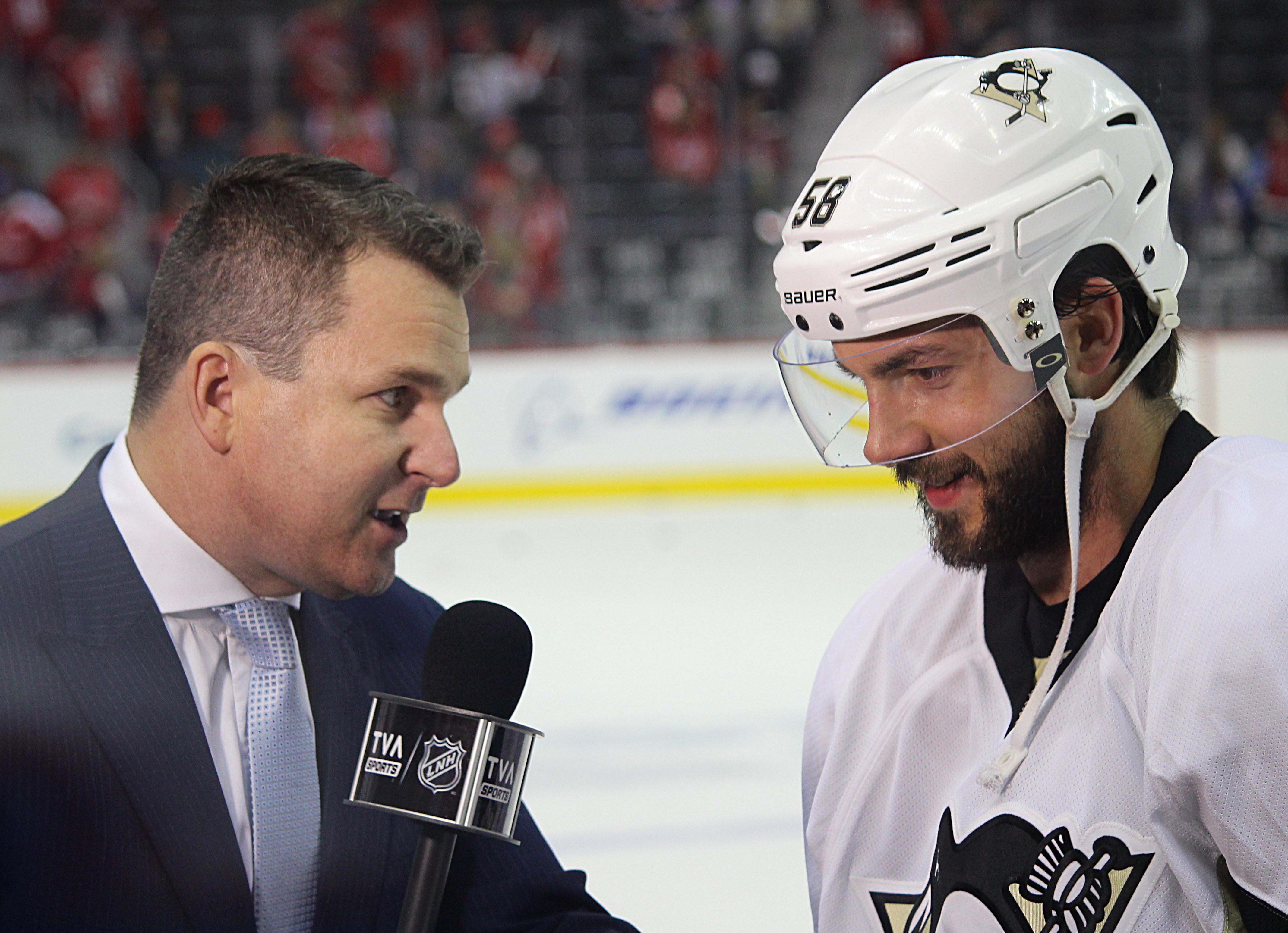 Renauld Lavoie of TVA Sports interviews Pittsburgh Penguins defenseman Kris Letang prior to game 1 of the Penguins second round series against the Washington Capitals in the 2016 Stanley Cup Playoffs.